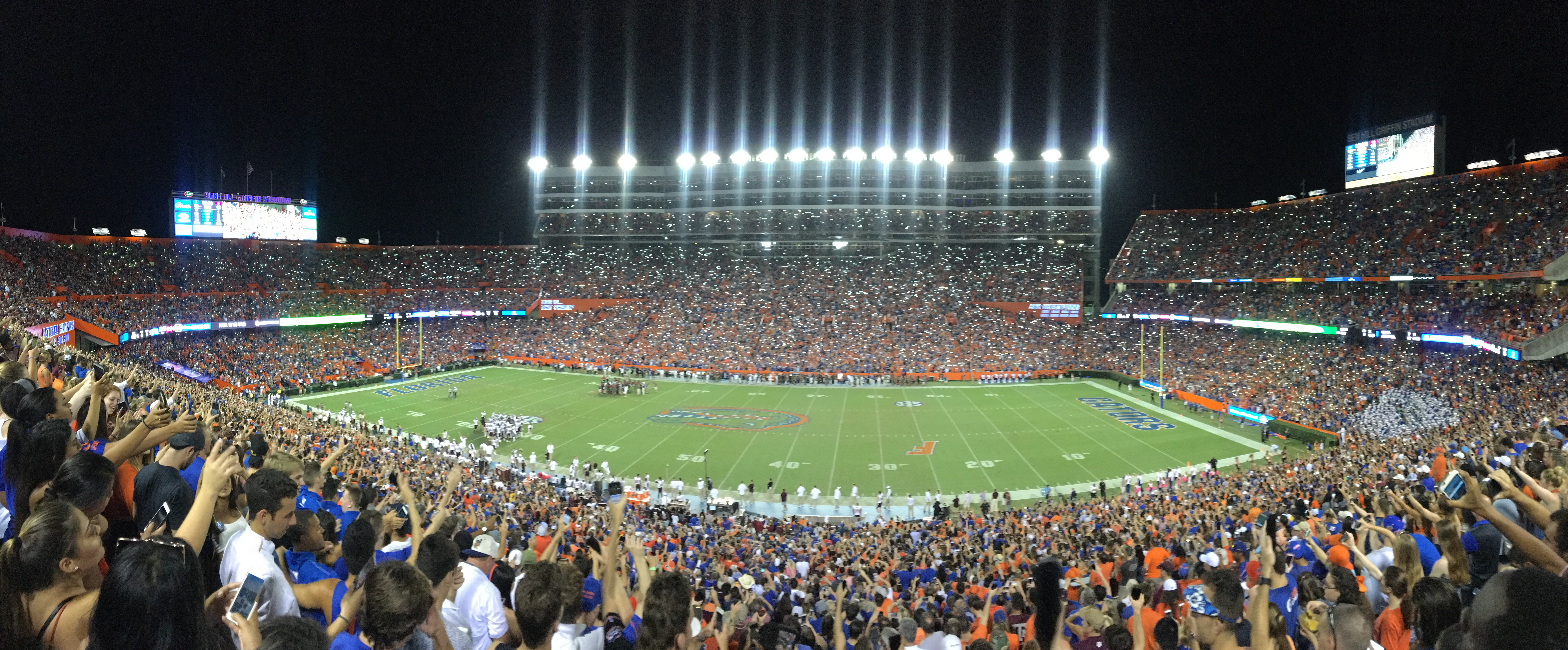 Ben Hill Griffin Stadium During "I Won't Back Down" Tradition